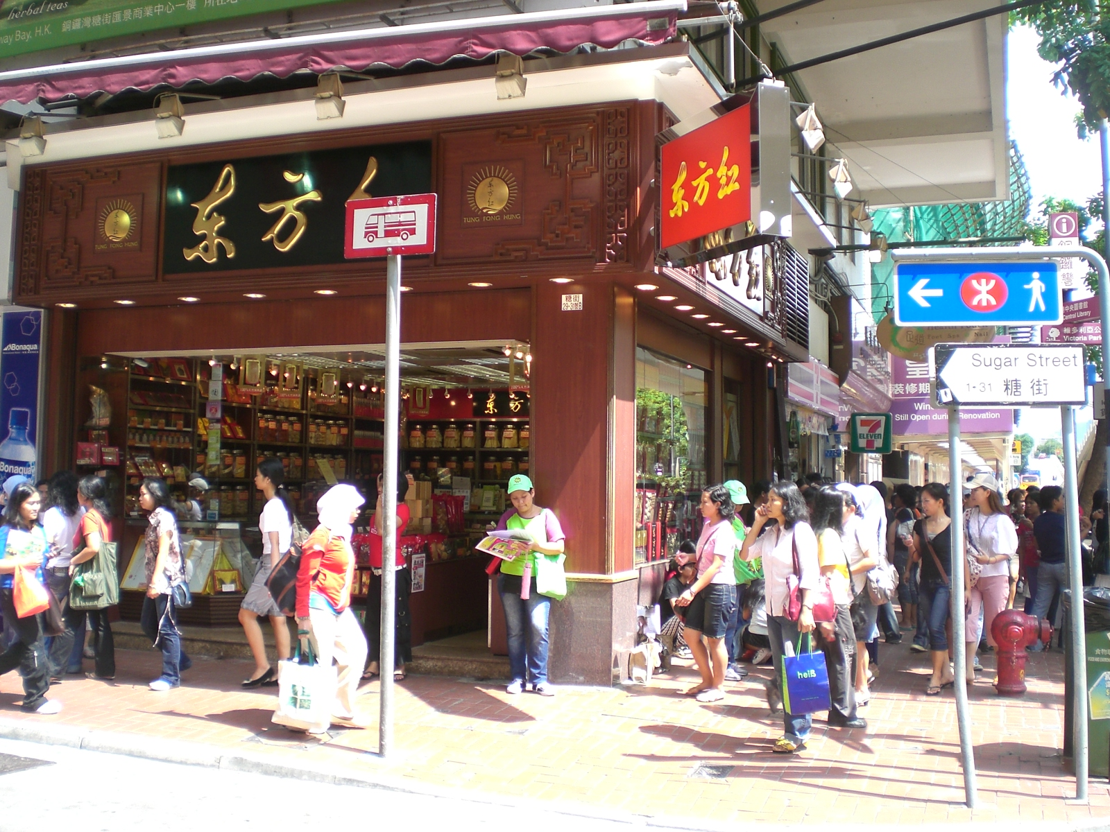 Sugar Street, 糖街 is a street located in Causeway Bay, Hong Kong. Author= DaviSements